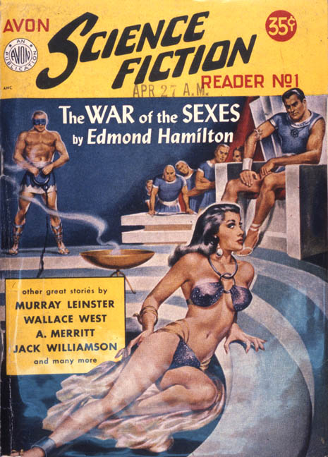 Cover of the fantasy fiction magazine Avon Science Fiction Reader no. 1 (1951) featuring "The War of the Sexes" by Edmond Hamilton.